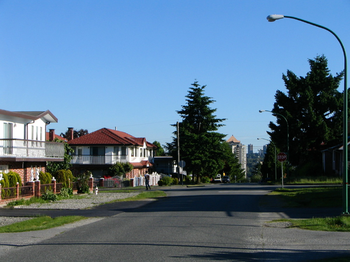 This image was created by me, Flying Penguin of Pacific Spirit Photography ( of Burnaby, BC Canada